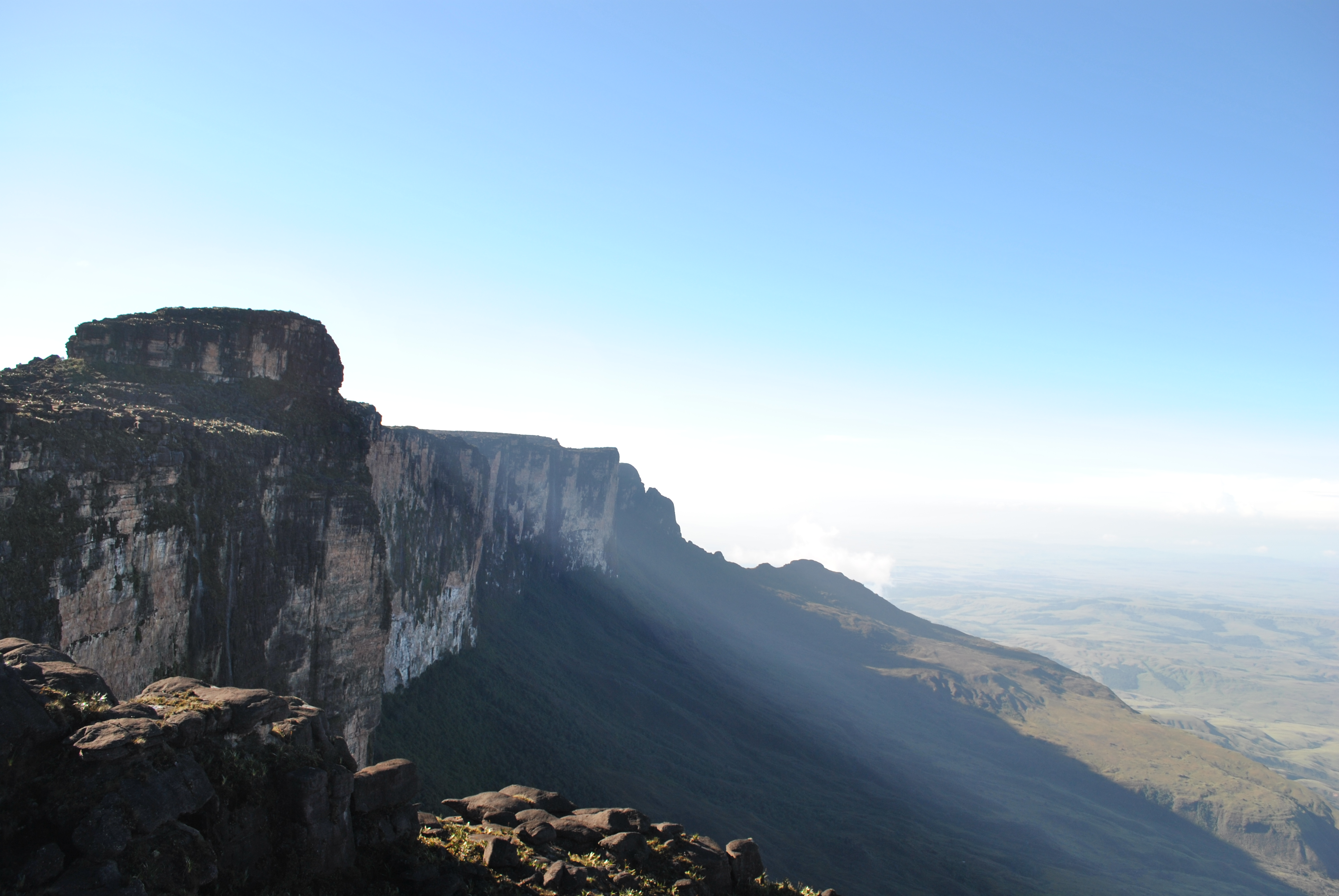 Maverick Rock (left), highest point of Mount Roraima and Venezuela with an altitude of 2810 m.